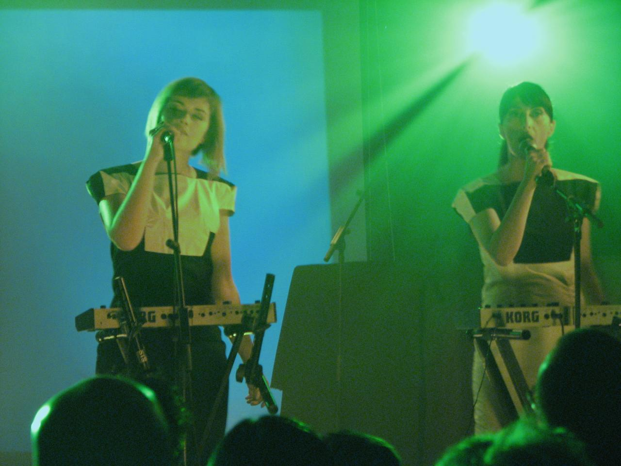 Marsheaux performing at the Infest 2008 in Bradford, UK